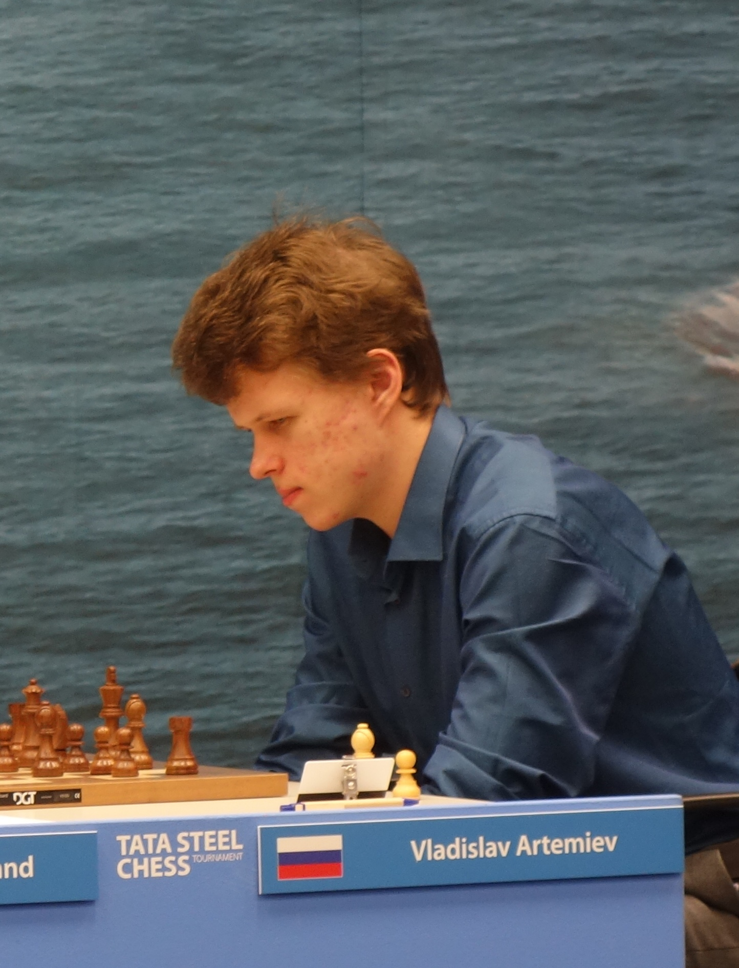 Vladislav Artemiev at Tata Steel chess tournament 2020